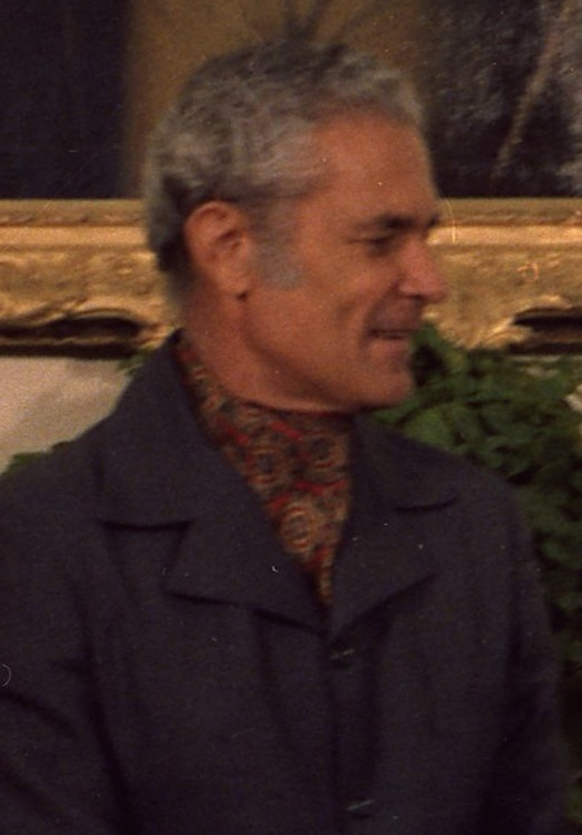 Michael Manley, Prime Minister of Jamaica, during a visit to the US in 1977